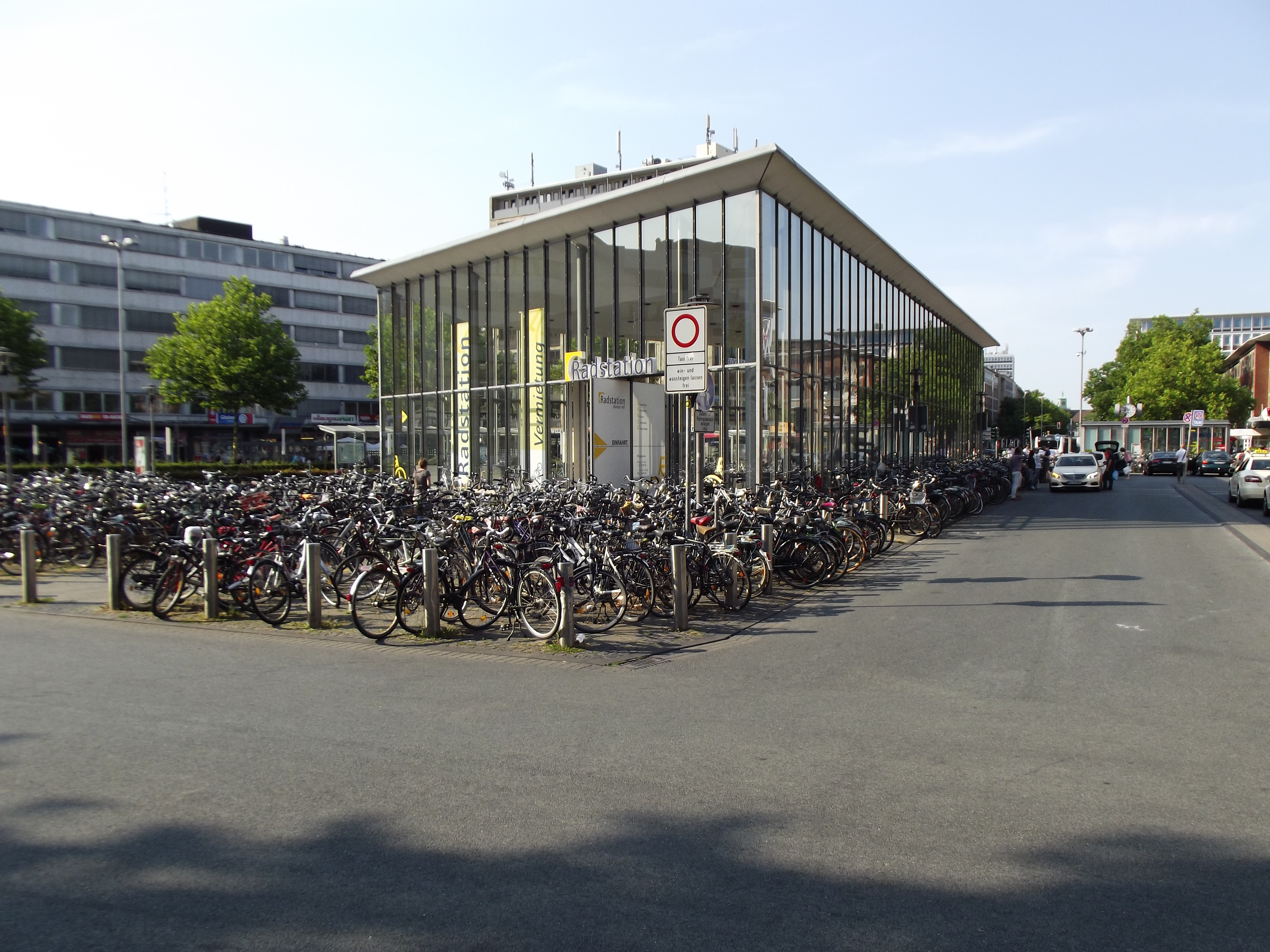 Being famous as the German paradise for bicyclists Muenster built a parking Garage for bycicles